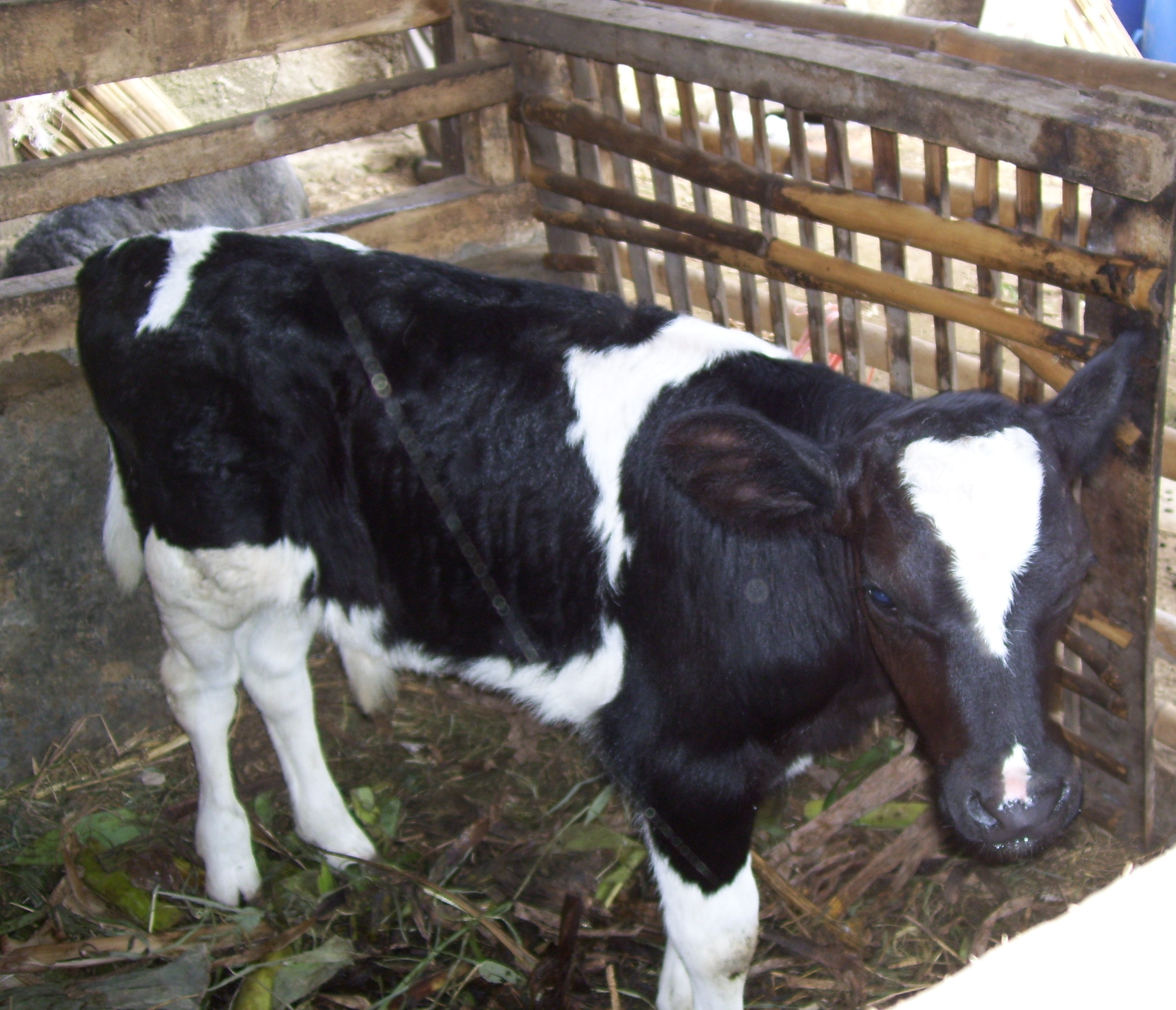 Ox